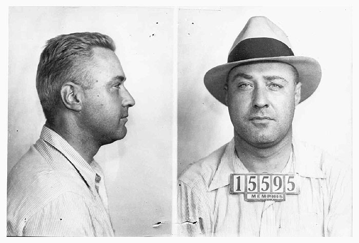 Mug shots, Machine Gun Kelly